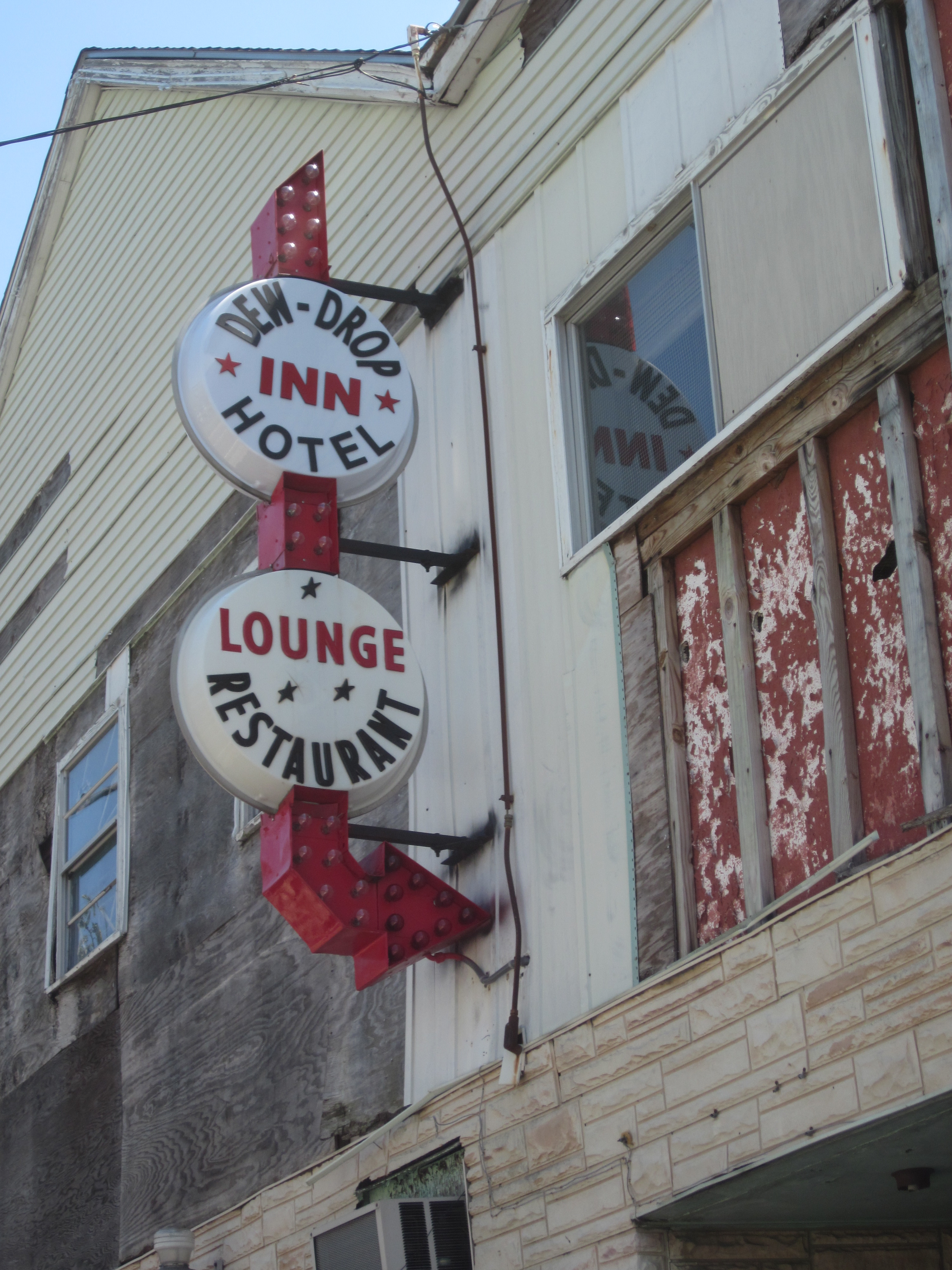 Dew Drop Inn building, LaSalle Street, New Orleans. Sign.